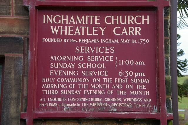 Notice board Inghamite Church. Wheatley